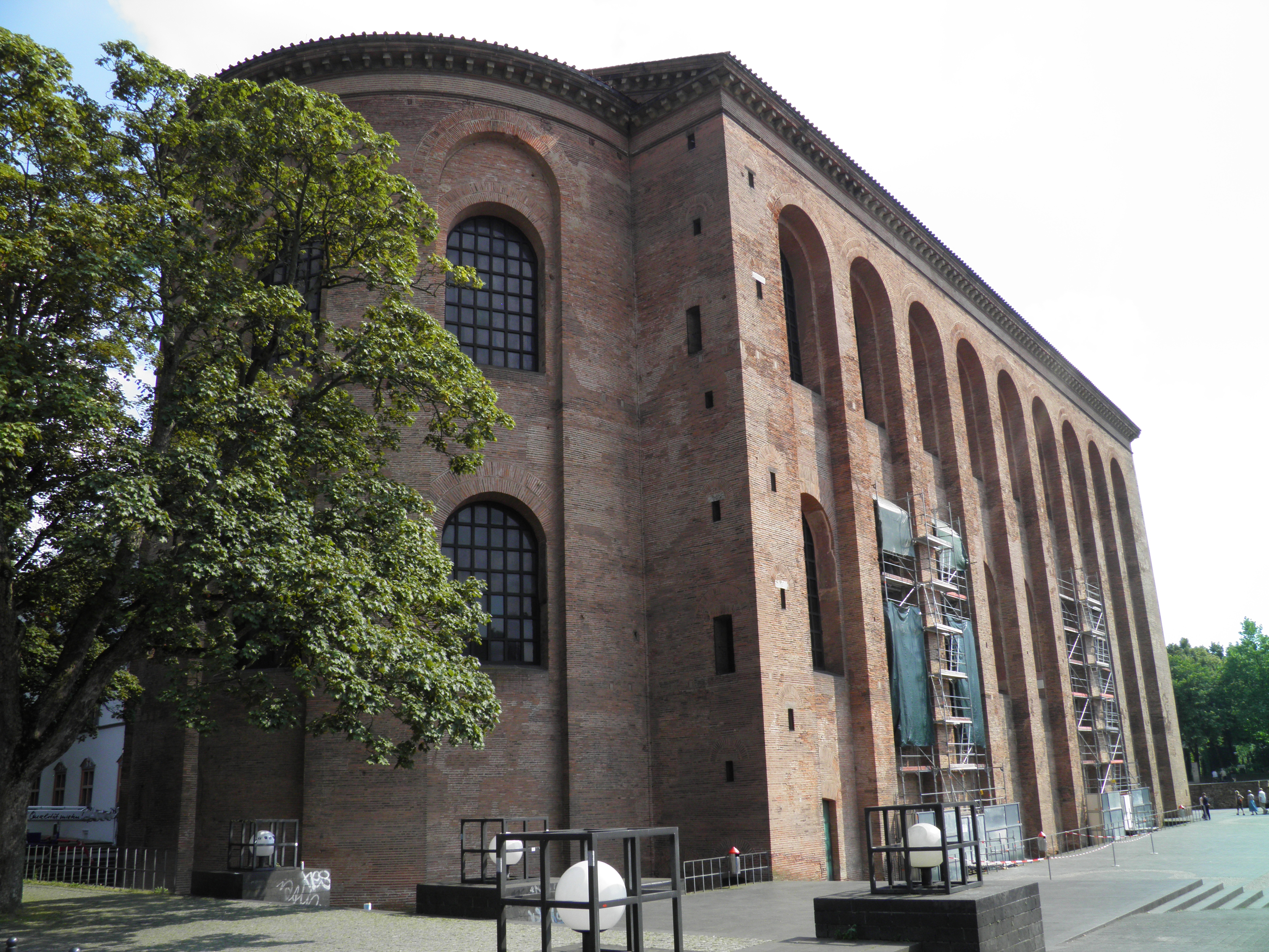 Aula Palatina (Basilica of Constantine), Augusta Treverorum, Trier